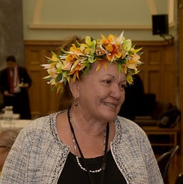 Agnes Armstrong, MP for Ivirua, in November 2019